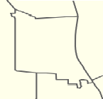 Umm Salal Municipality